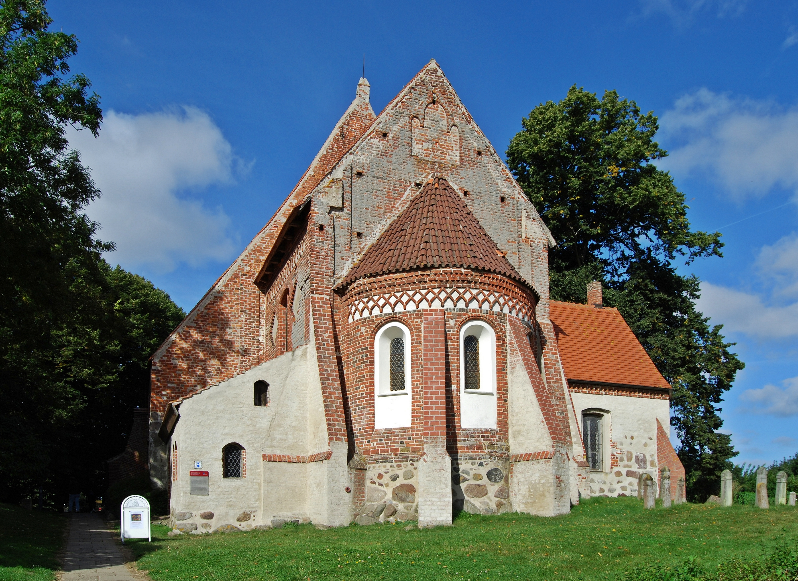 The Protestant Parish church of Altenkirchen, Rügen, Mecklenburg-Vorpommern.